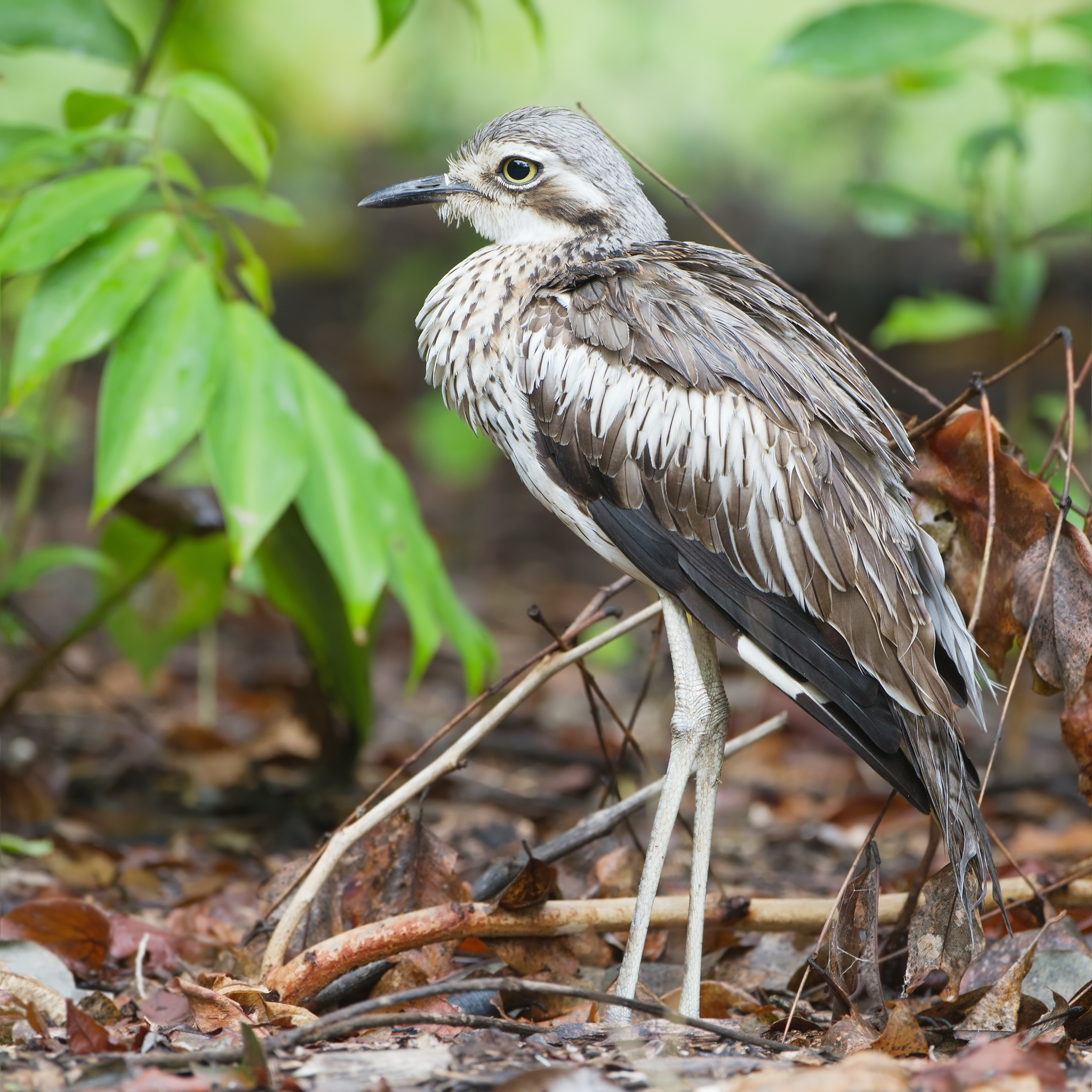 Bush Stone-curlew (Burhinus grallarius), Centenary Lakes, Cairns, Queensland, Australia